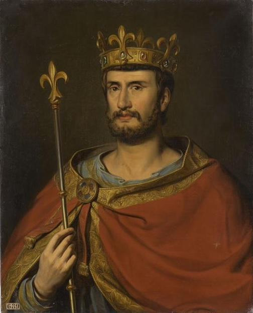 Portraits of Kings of France is a serie of portraits commissioned between 1837 and 1838 by Louis Philippe I and painted by various artists for the Musée historique de Versailles.